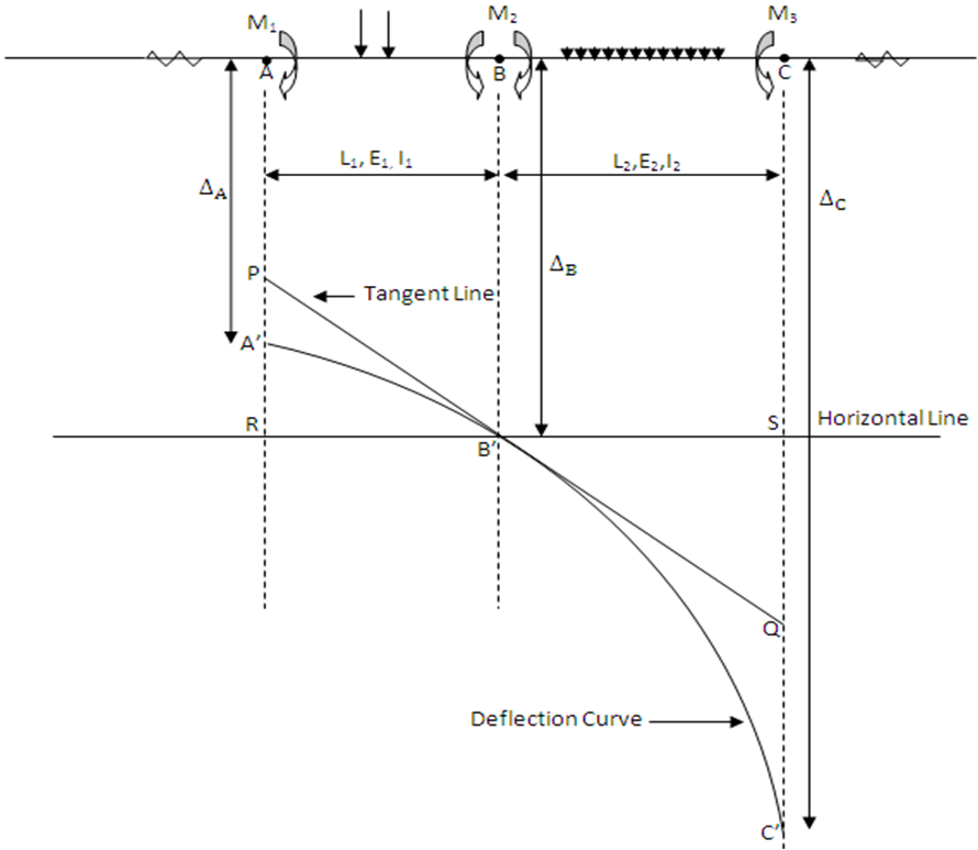 This Figure used for derive the Three Moment Equation.